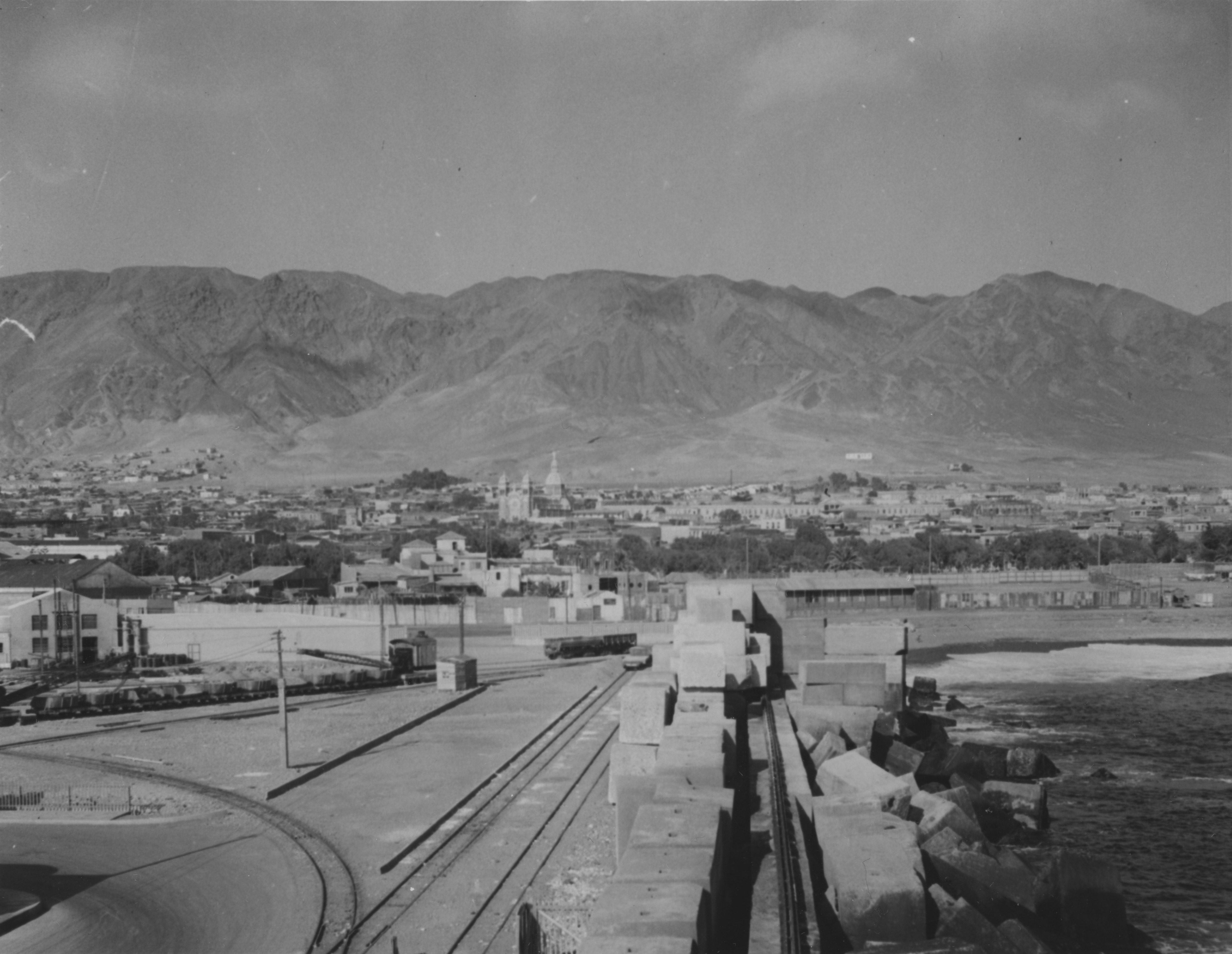 View of the docks at Antofagasta in June 1941. Photographer was Harry P. Hart of the Bureau of Public Roads.